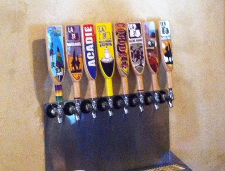 Taps listing many beers that are produced by Bayou Teche Beer and available to drink at the brewery as of June 2013.